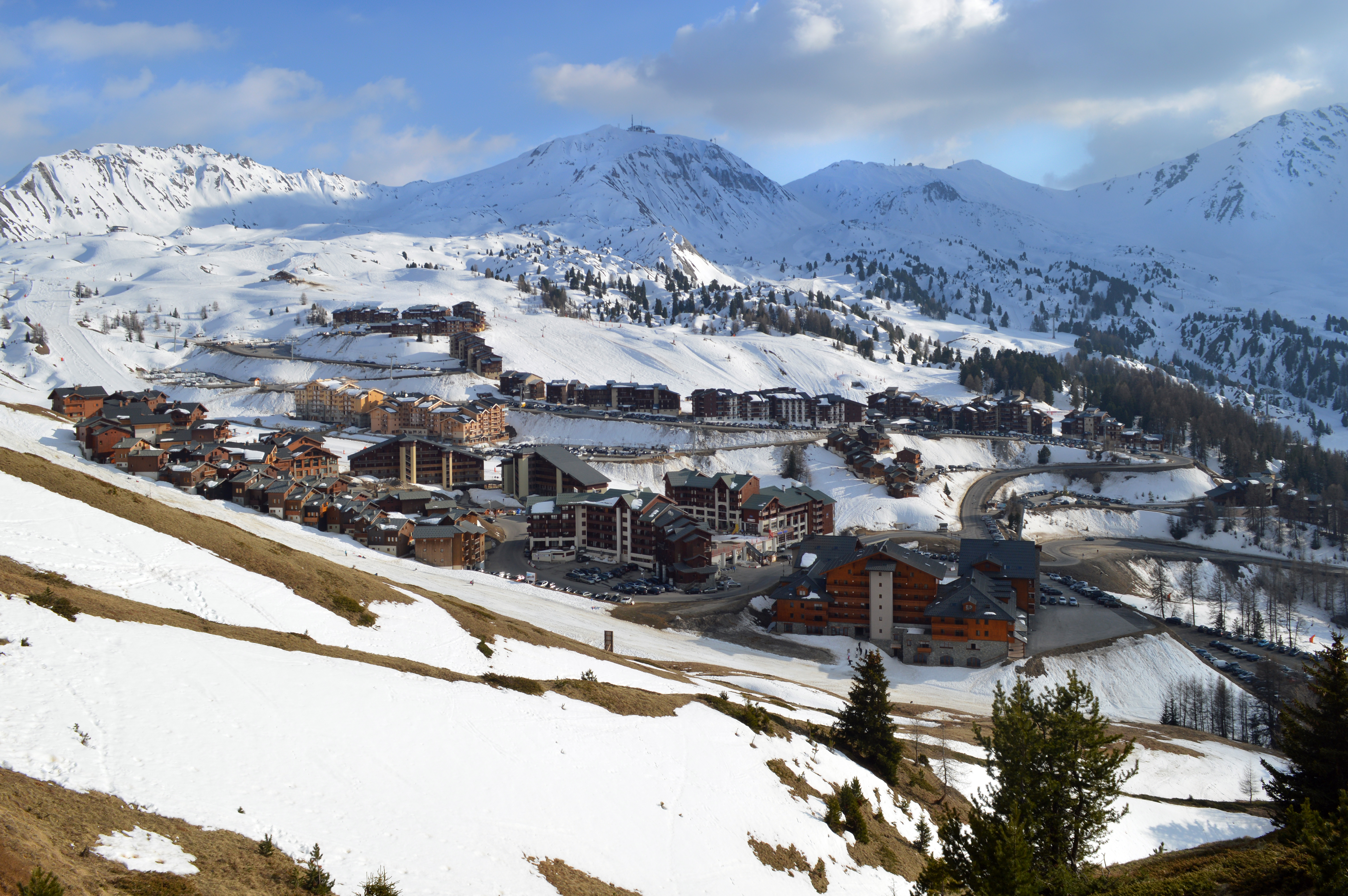 Plagne Soleil and Plagne Villages, April 2017